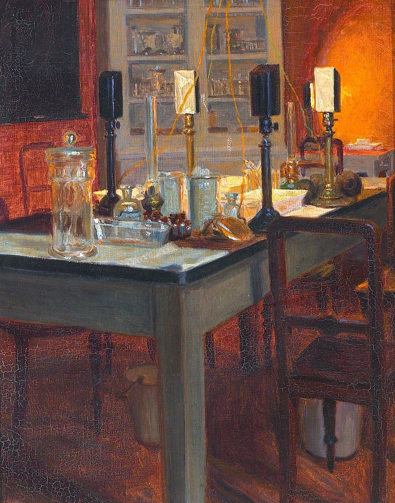 The old hospital was closed in 1910, so the painting is probably older than that. Carl Mathorne portrayed professor (and chief surgeon at the hospital) Oscar Wanscher in 1906, which might give a clue to the date.